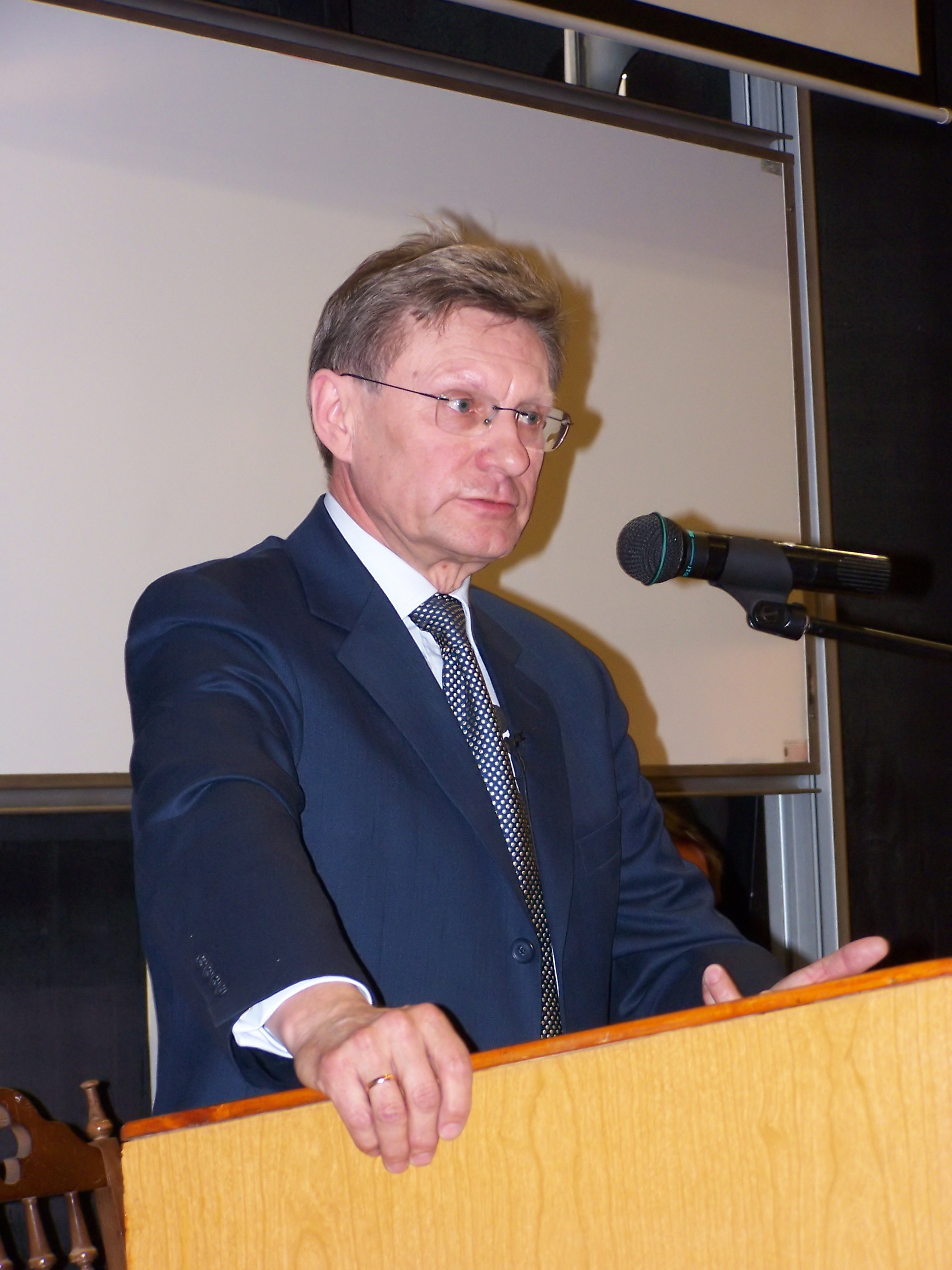 Leszek Balcerowicz.